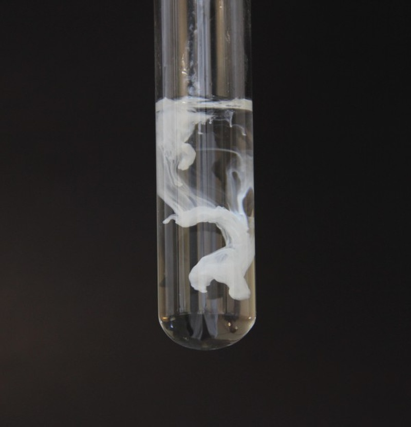 Reaction of silver nitrate (1 mol L-1) with diluted hydrochloric acid. And results a white solid precipitate identified as silver chloride (AgCl).